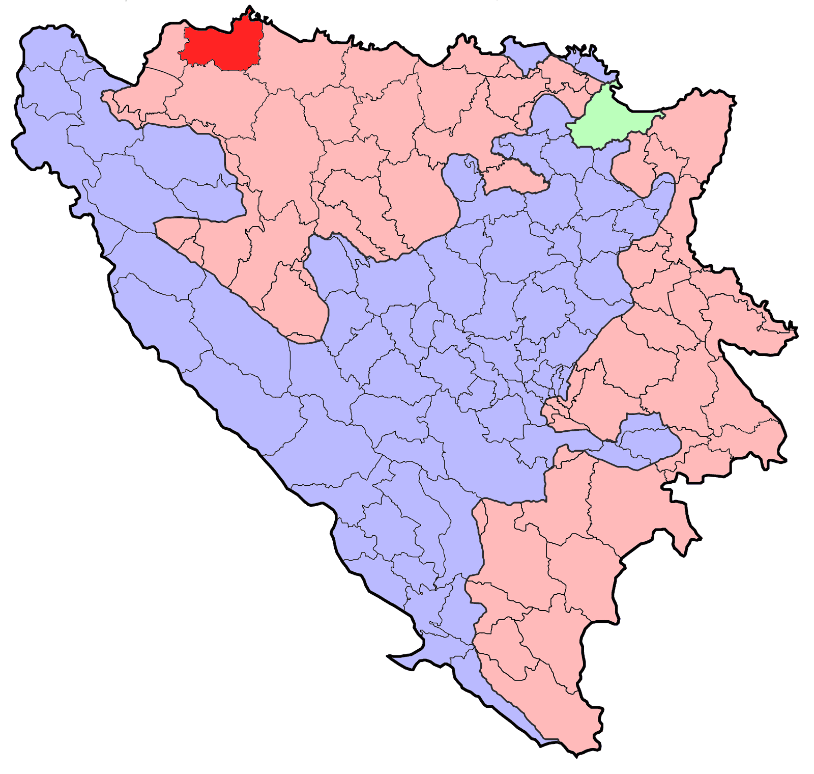 Bosanska Dubica municipality